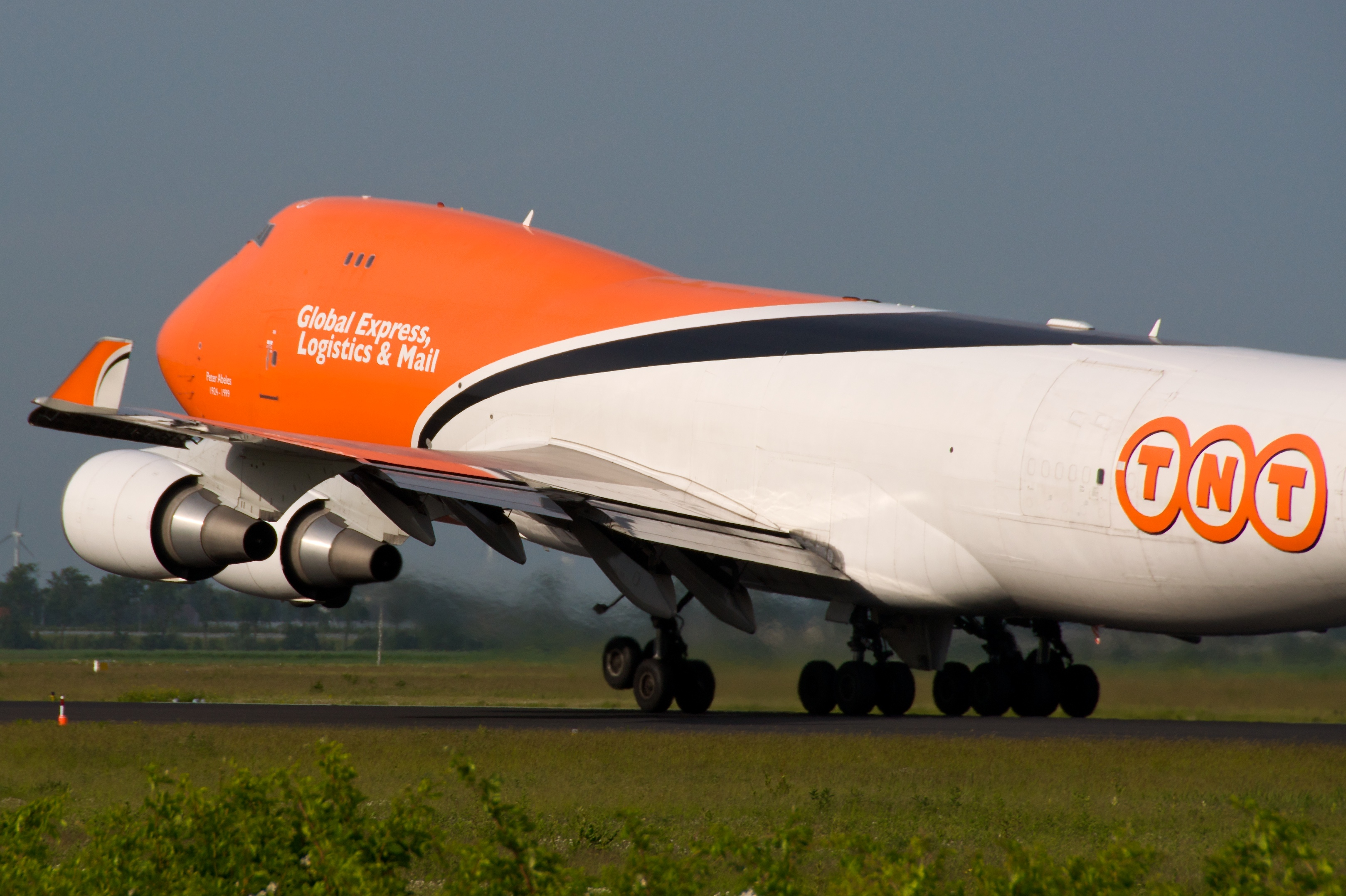 TNT Airways 747-400F OO-THA.